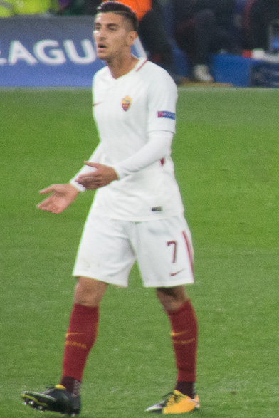 Chelsea VS. Roma 18 October 2017